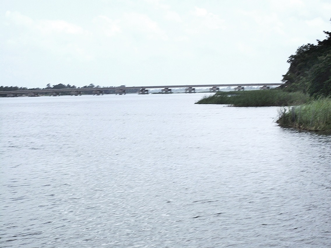 R. Volta with Sogakope bridge in the distance